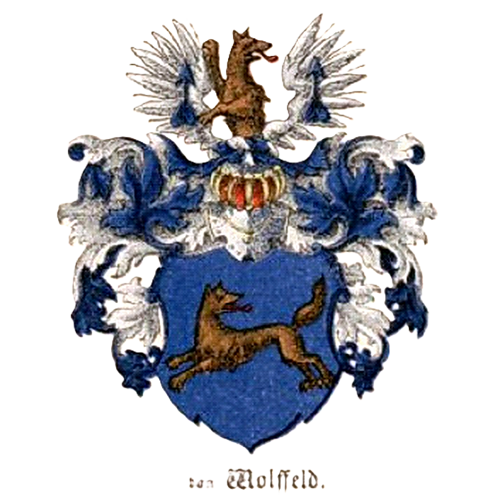 Coat of arms of Wolffeld family